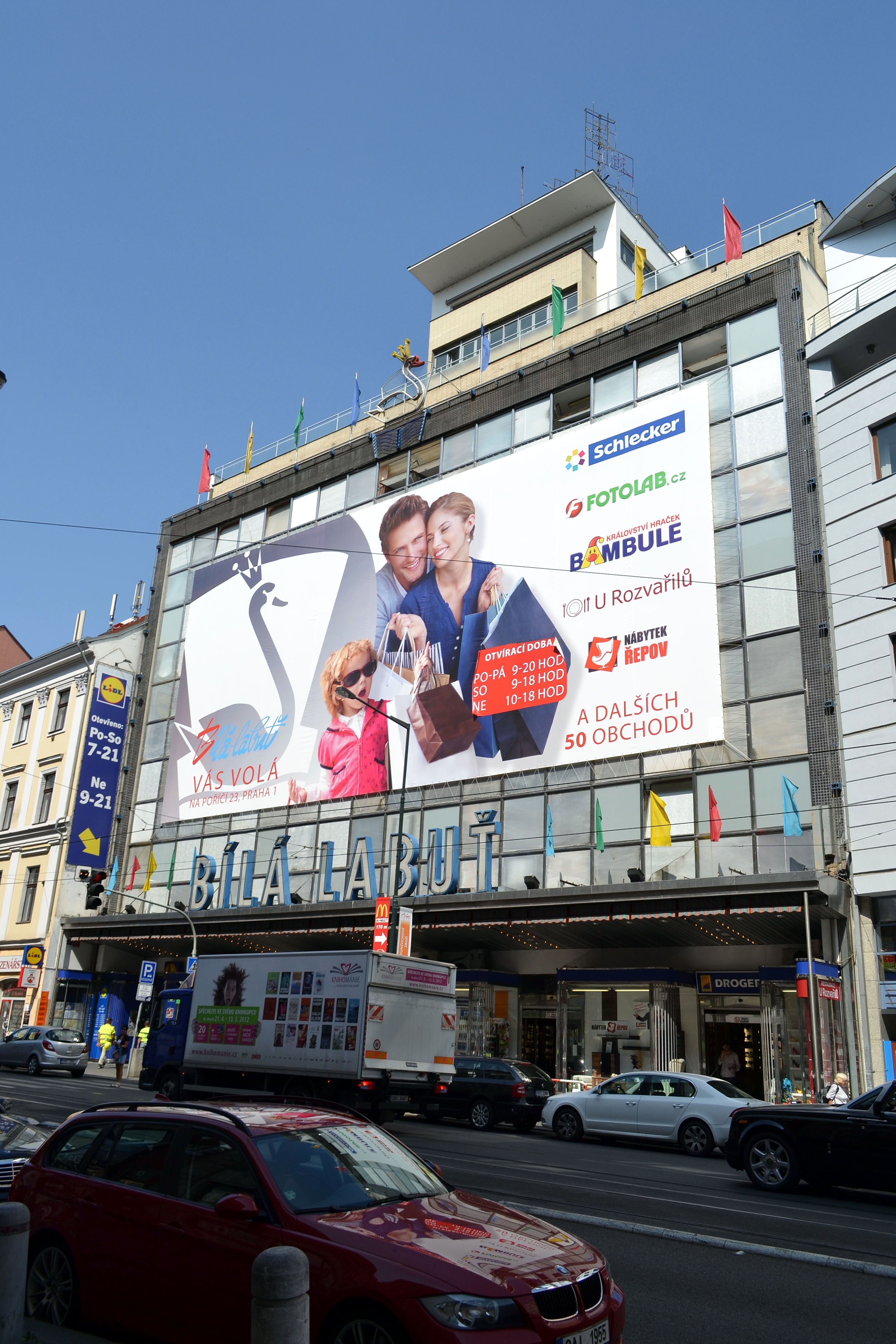 Shopping center "Bílá labuť" (literally "White Swan"), Na Poříčí street, New Town, Prague 1, Czech Republic.